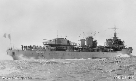 Starboard broadside view of the French Free Force ship, the large destroyer Triomphant.